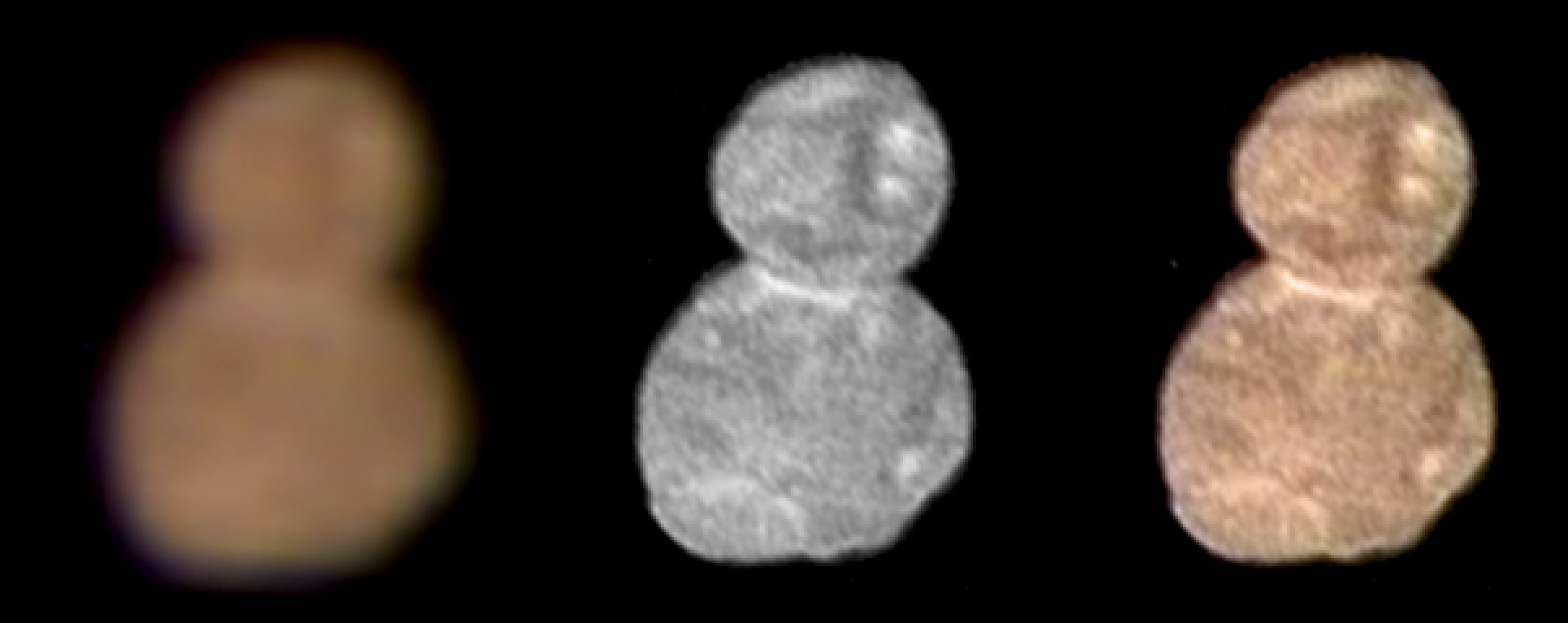 Original caption: The first color image of Ultima Thule, taken at a distance of 85,000 miles (137,000 kilometers) at 4:08 Universal Time on January 1, 2019, highlights its reddish surface. At left is an enhanced color image taken by the Multispectral Visible Imaging Camera (MVIC), produced by combining the near infrared, red and blue channels. The center image taken by the Long-Range Reconnaissance Imager (LORRI) has a higher spatial resolution than MVIC by approximately a factor of five. At right, the color has been overlaid onto the LORRI image to show the color uniformity of the Ultima and Thule lobes. Note the reduced red coloring at the neck of the object.